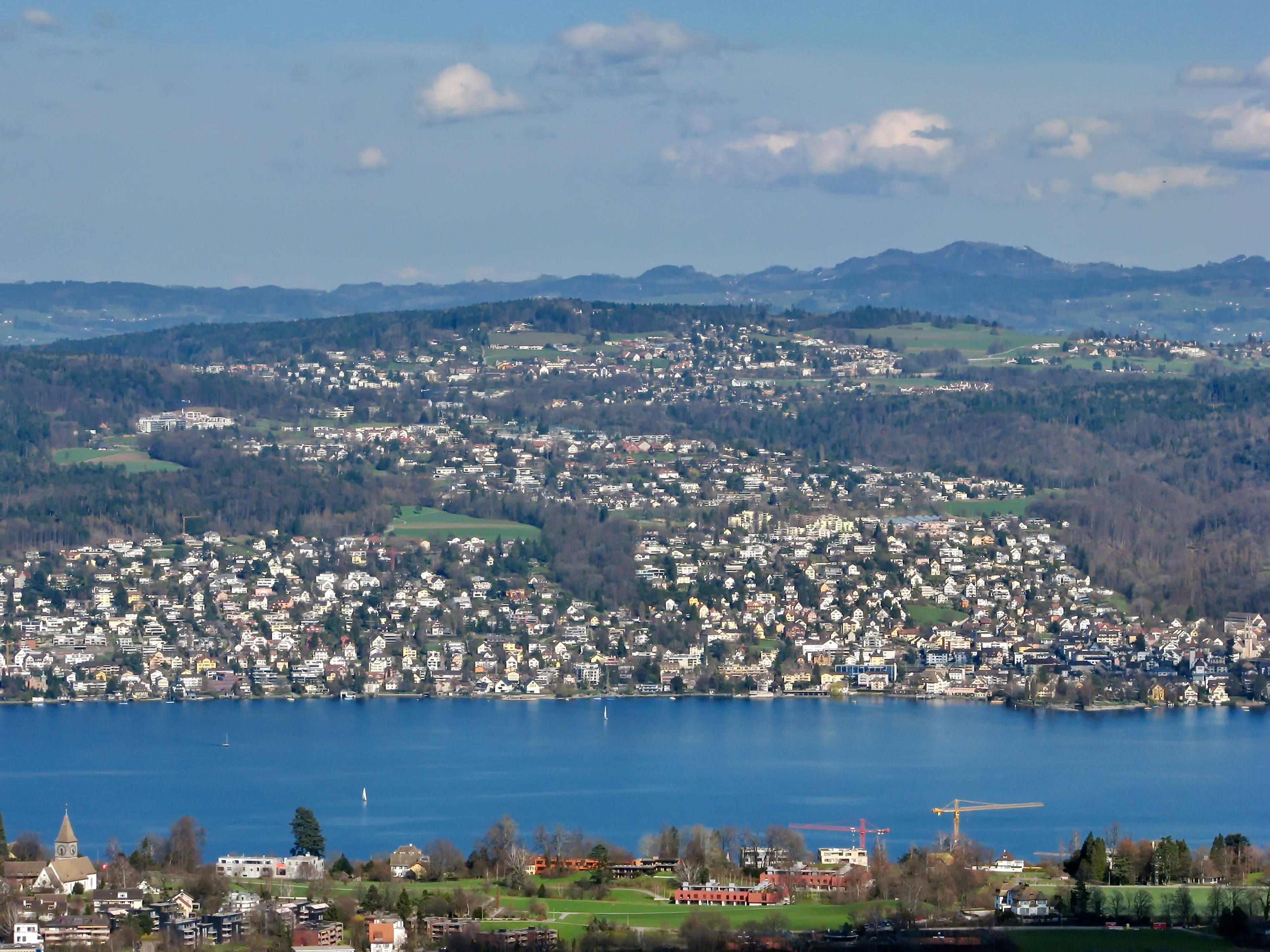 Zürichsee, Küsnacht and Forch as seen from Albis.